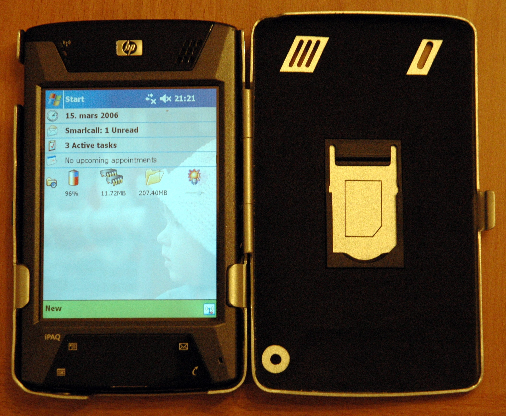 Personal Digital Assistant from HP, in aluminium casing. My own photo